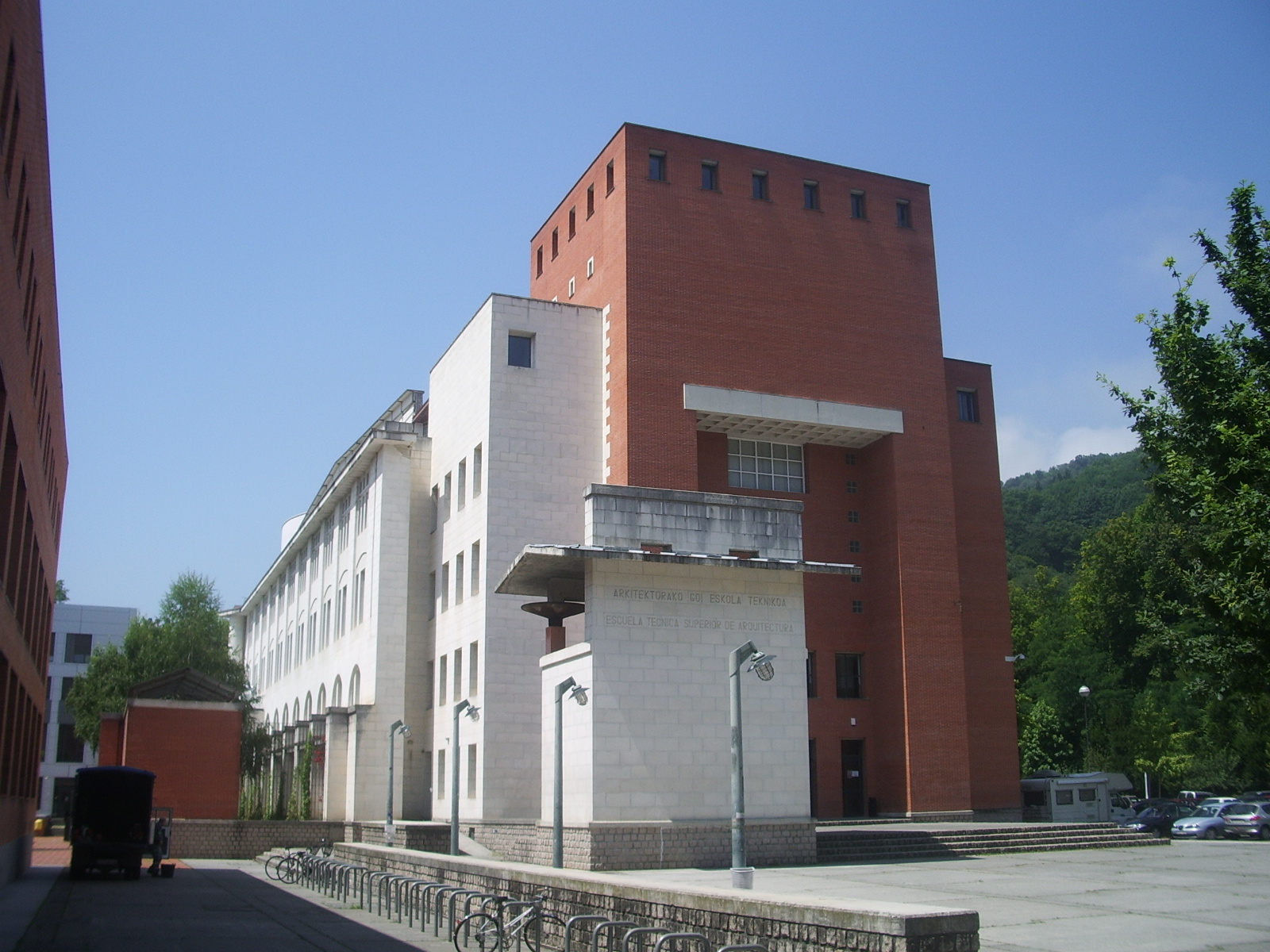 Architecture School building, University of the Basque Country (San Sebastian)